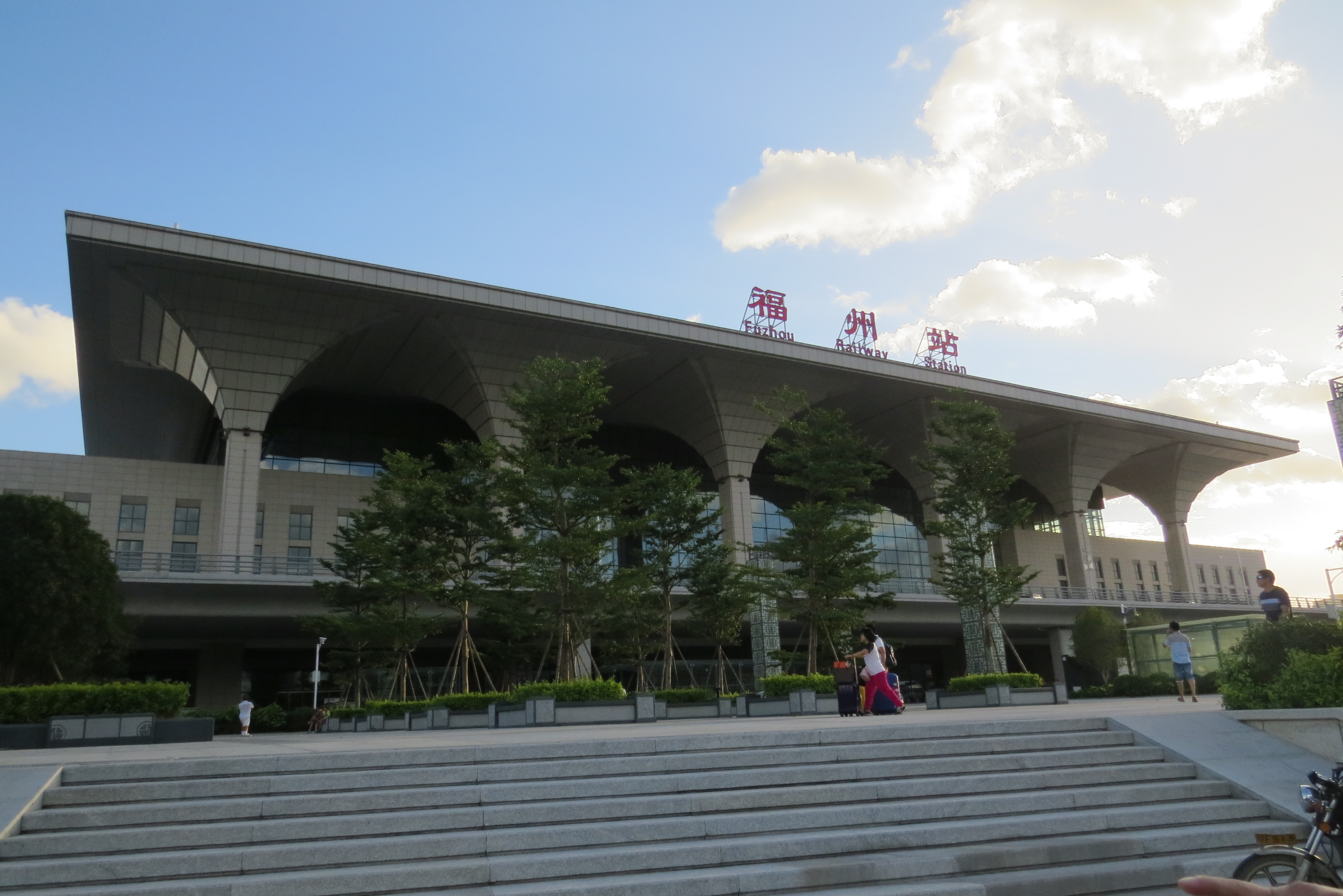 New building, new portal. Refreshing Fujian beckons!